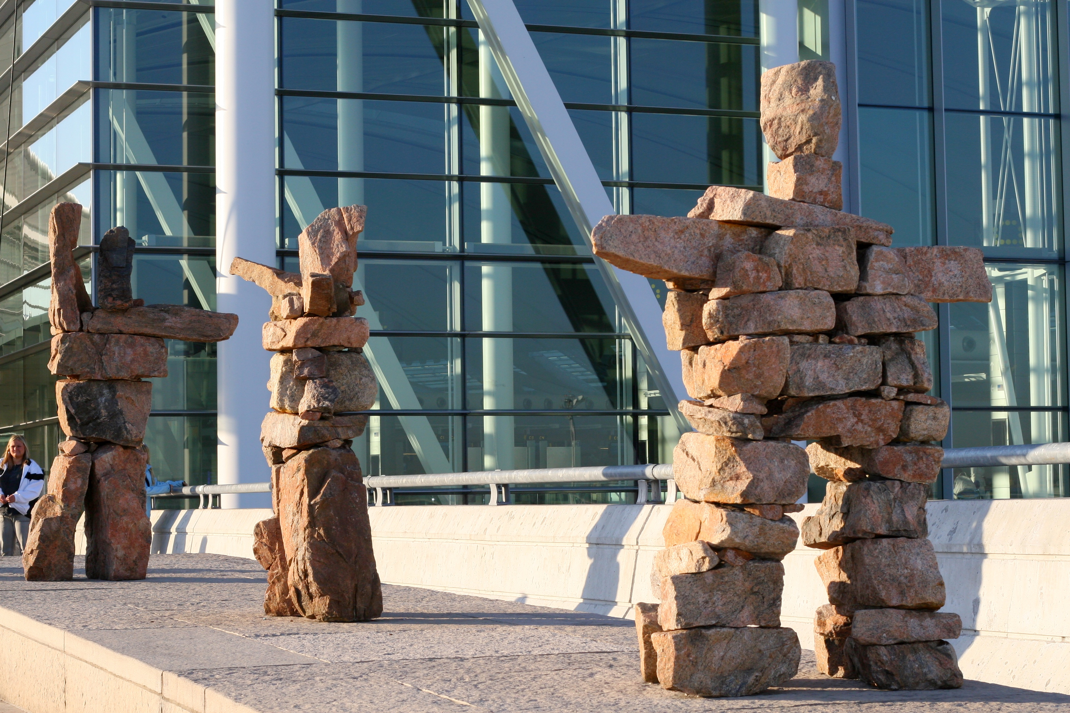 Three inukshuks, standing in front of the departures entrance at Toronto Pearson Airport (Terminal 1, Departures, Curbside (YYZ)).